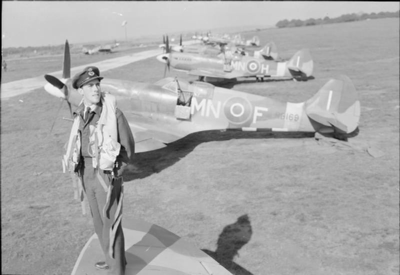 Royal Air Force- Air Defence of Great Britain (adgb), 1943-1944. Flying Officer J Wustefeld of No. 350 (Belgian) Squadron RAF surveys the airfield from the wing of his Supermarine Spitfire Mark XIV, lined up with other aircraft of the Squadron at Lympne, Kent.